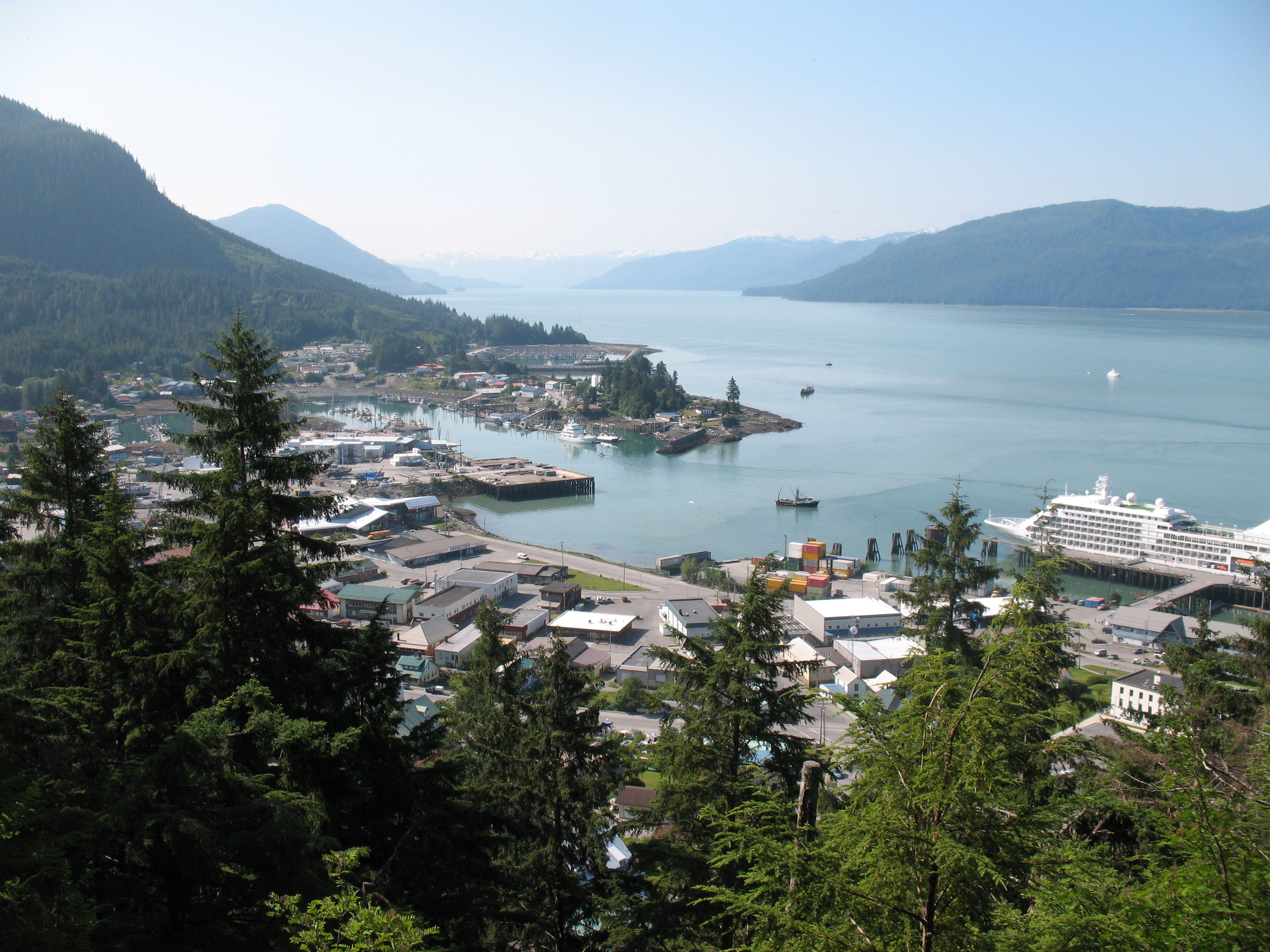 aerial view of Wrangell from Mt. Dewey